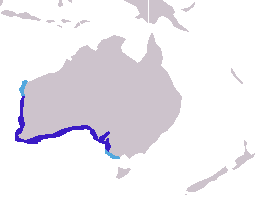 Distribution of the Australian Sea Lion, Neophoca cinerea (dark blue = breeding colonies, light blue = non-breeding individuals)